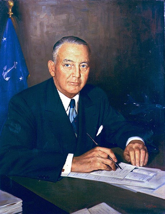 Dan A Kimball, former Secretary of the Navy